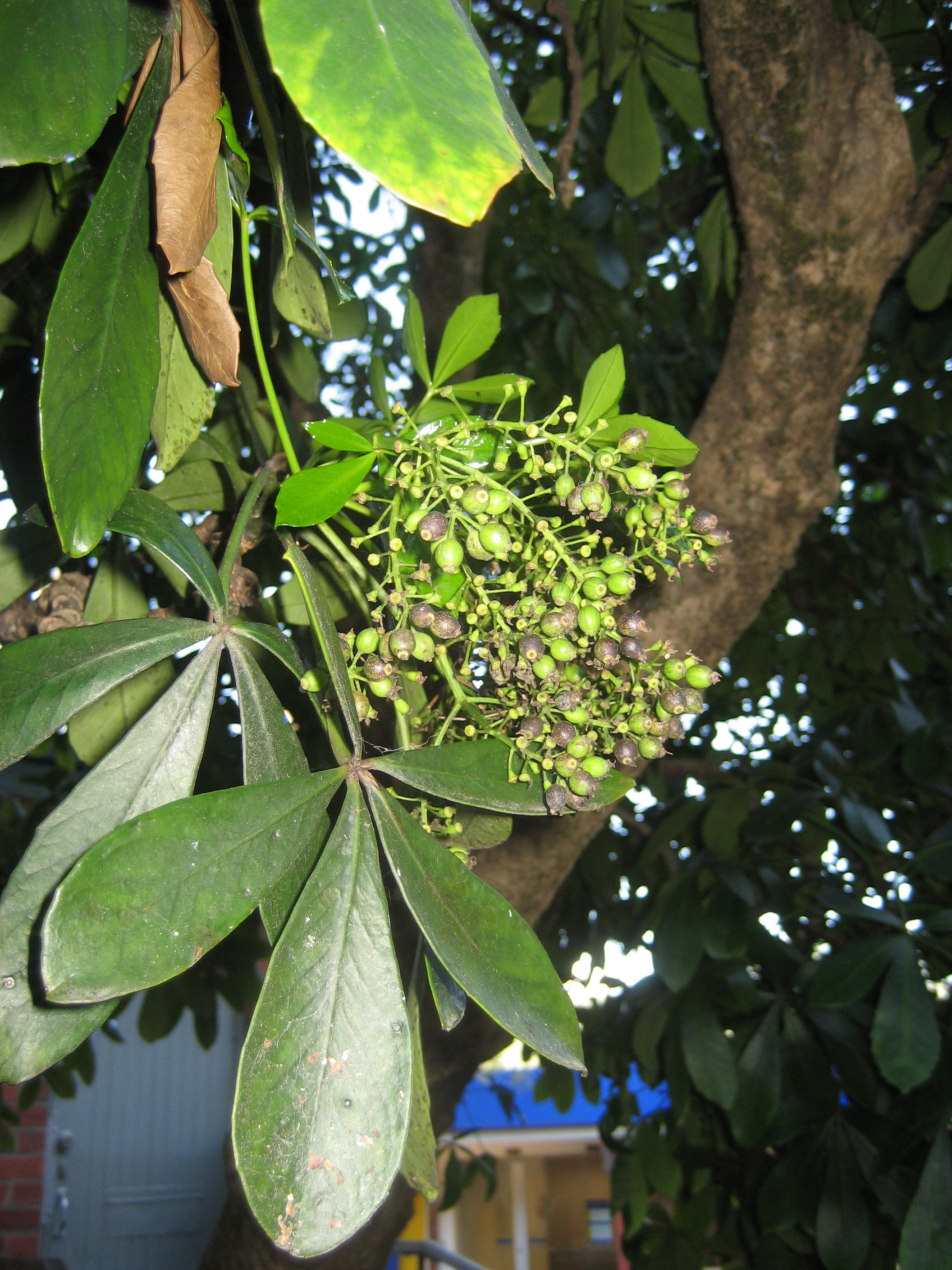 Maturing fruit of Pseudopanax lessonii, Houpara. From a mature tree at Howick, Manukau City, New Zealand